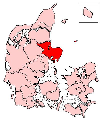 Map of Randers County 1793-1970